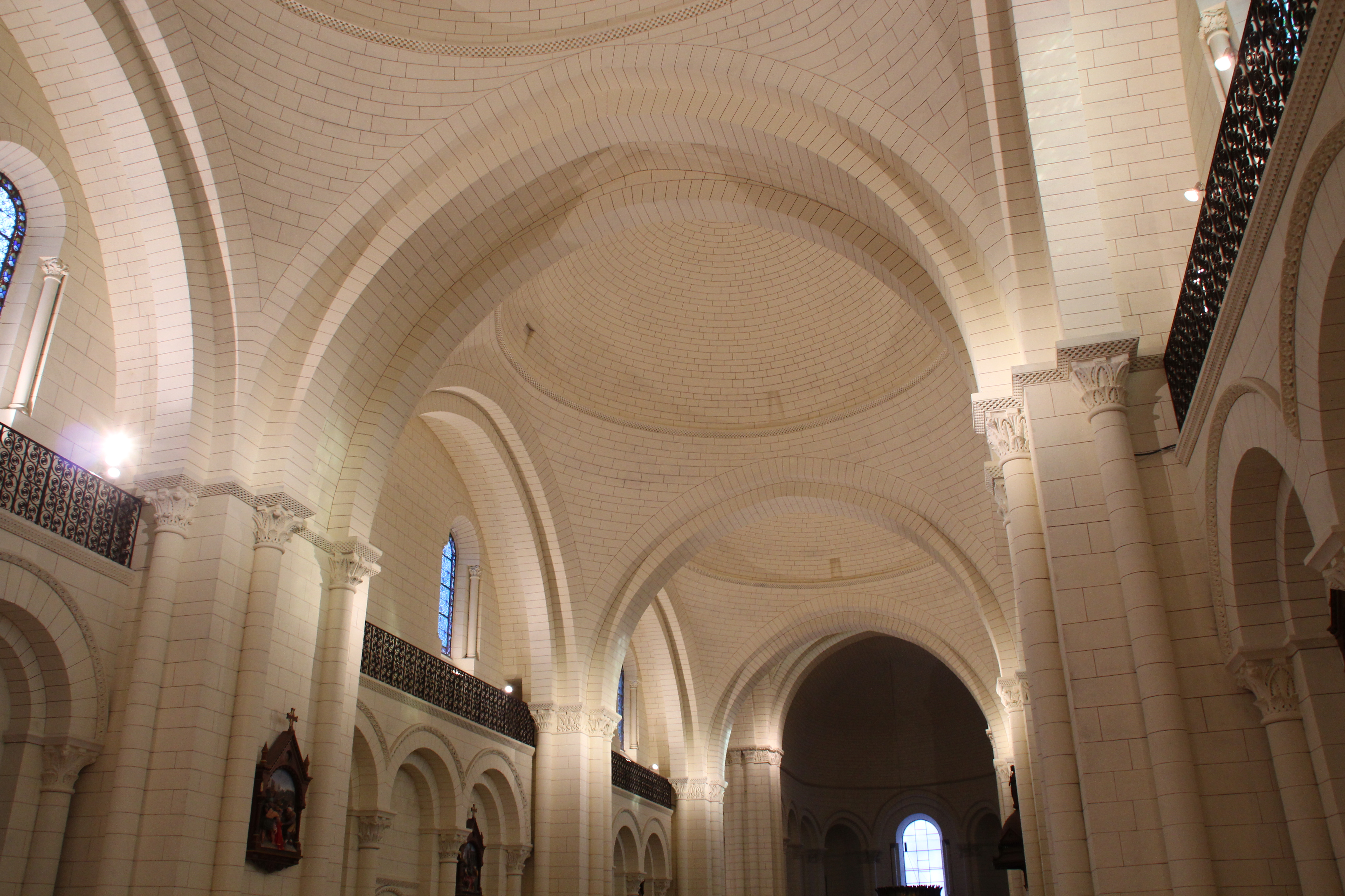 View of the Saint-Pierre d'Angoulême cathedral during the Angoulême International Comics Festival 2013.